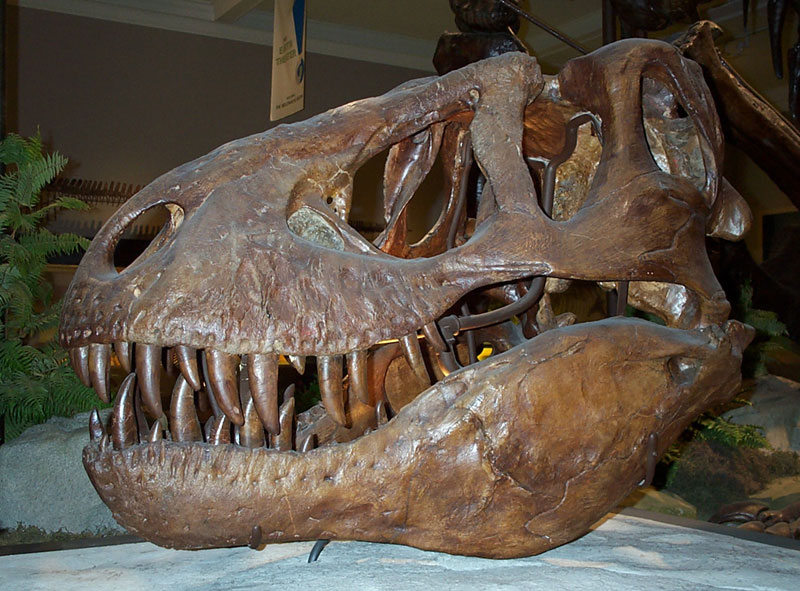 Skull of Tyrannosaurus rex, type specimen (CM 9380) at the Carnegie Museum of Natural History (abbreviated as CMNH). The American Museum of Natural History (AMNH) had led the expedition which had found the fossil in 1902 and possessed the mount until 1941, when it was purchased by the Carnegie Museum. The latter changed the original inventory number AMNH 973 to the current CM 9380. The skull had been found largely incomplete and the AMNH, between 1902 and 1915, heavily and inaccurately restored the remains with plaster, using Allosaurus as a model because Allosaurus was the largest theropod known in the 1900s and 1910s and, thus, was considered at the time as the closest relative to Tyrannosaurus. The resulting historic restoration brought by the AMNH to the skull, as visible in this photograph, was disassembled in 2003. Photographer John Parise, from San Francisco (USA), took this photograph in the Carnegie Museum in 2001 and shared it in Commons on Flickr in 2006. The process to reassemble the skull required elements from other skulls, casts provided by other museums in the United States. It was finally put on display in a more accurate anatomical restoration in 2008.